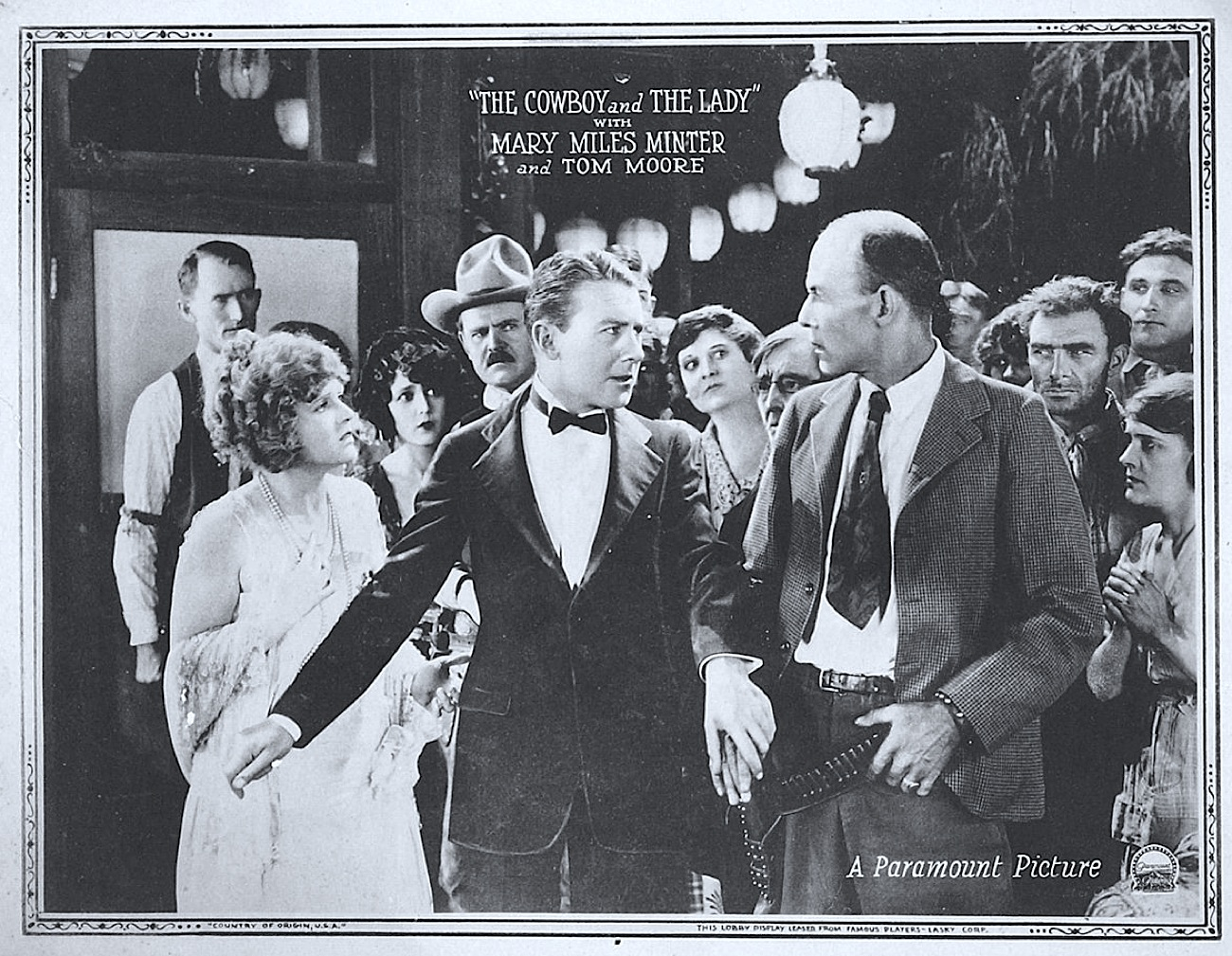 The Cowboy and the Lady is a 1922 American silent Western film directed by Charles Maigne and stars Mary Miles Minter and Tom Moore. This is a lobby card for the film.